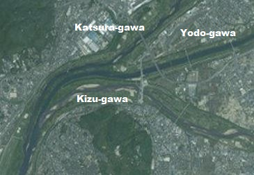 Aerial view of the confluences points of the Kizu, Katsura and Yodo river, near Hirakata (Osaka prefecture).